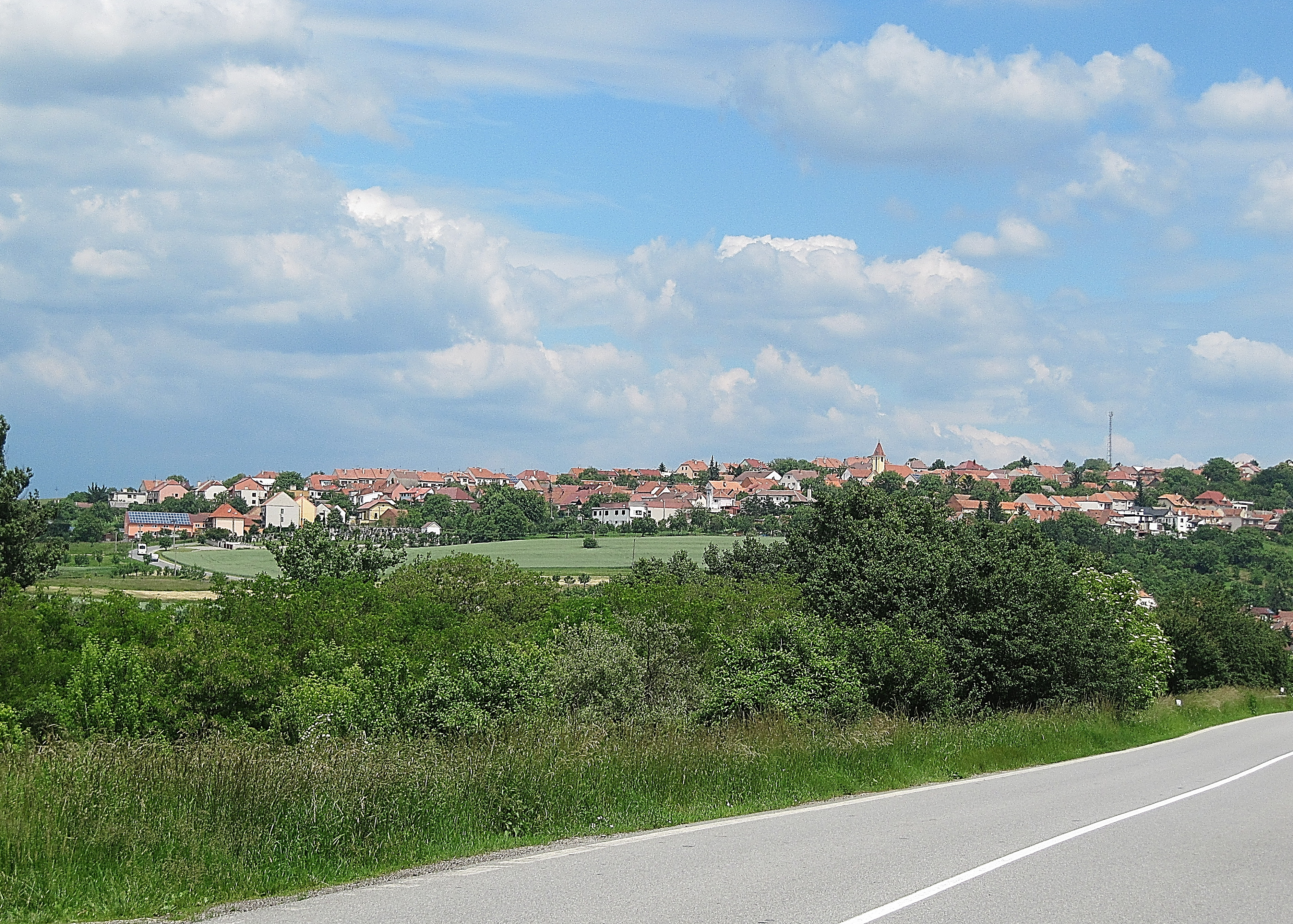 Popovice, Uherské Hradiště District, Czechia.